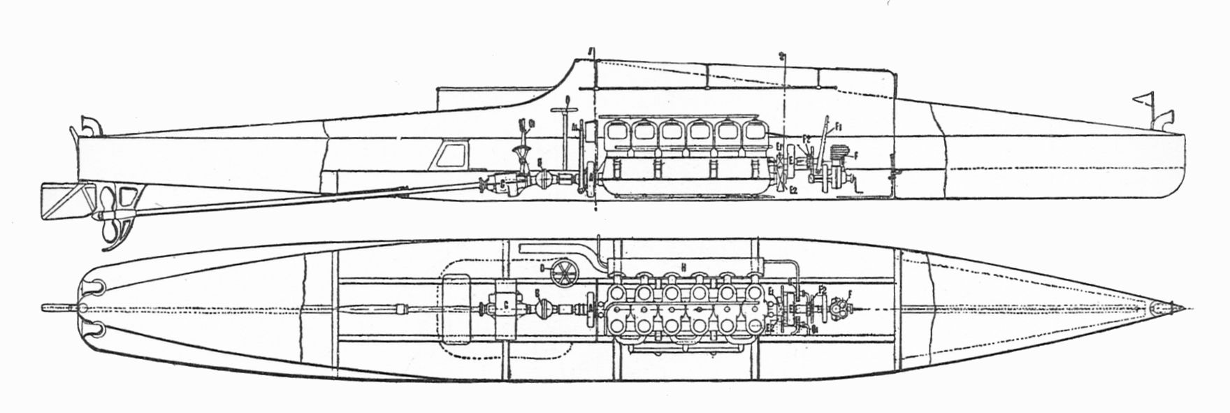 Napier racing motor launch (Rankin Kennedy, Modern Engines, Vol V).jpgFig. 146